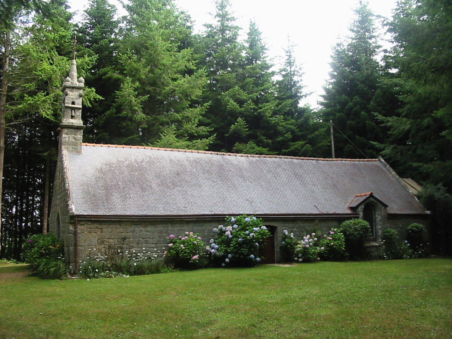 Saint Mélaine's chapel